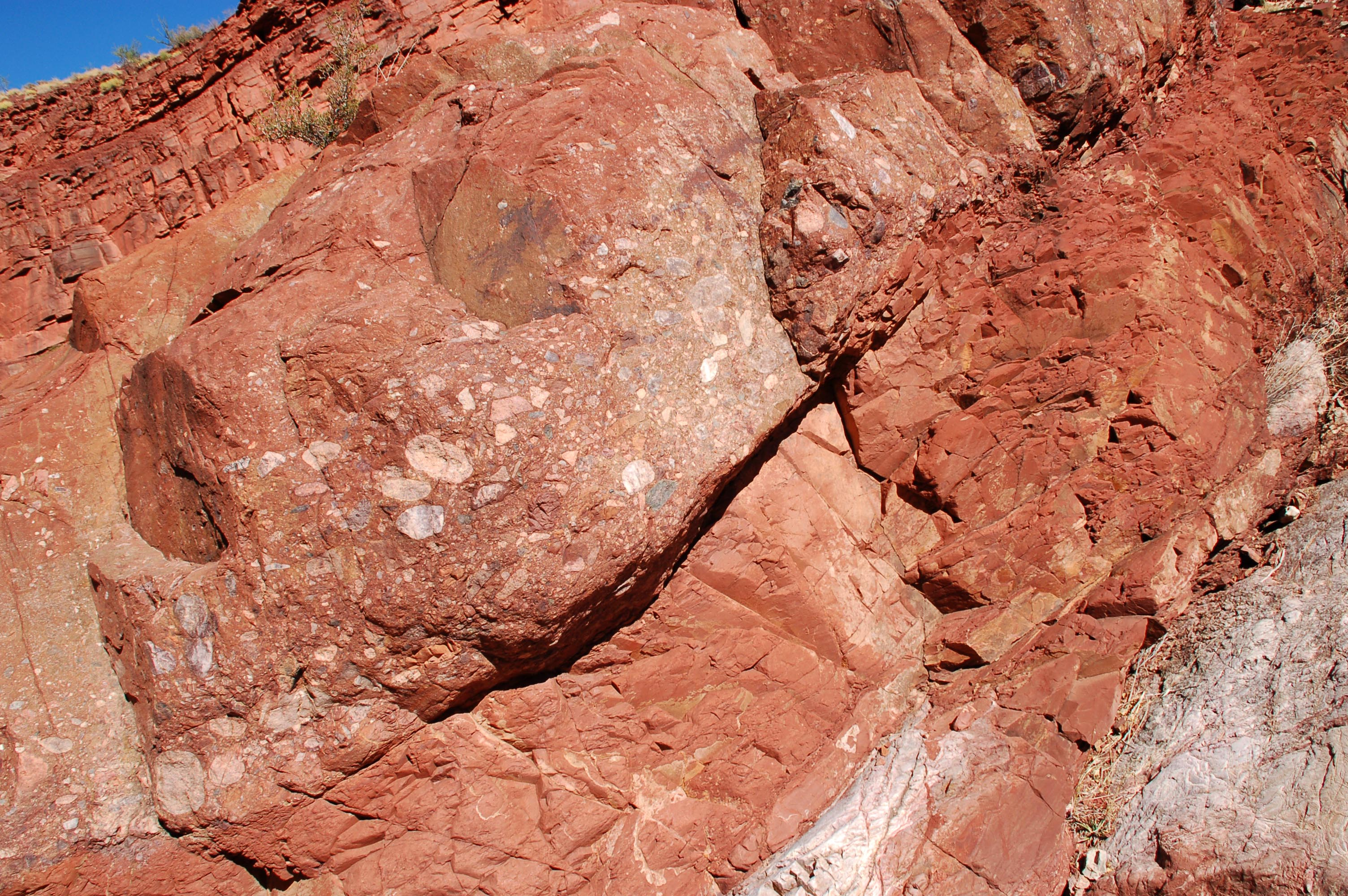 NPS Photo by: Carl Bowman Bass Limestone Thickness: 260-300 feet A number of different sedimentary rock types (such as conglomerate, dolomite and shale) occur within this light grey to brown formation. The Bass Limestone contains fossilized stromatolites, which are among the oldest fossils in the world. Their presence allows scientists to infer that the Bass Limestone was deposited in a warm and shallow sea environment. Hakatai Shale Thickness: 445-985 feet This colorful formation contains layers of red sandstones, red shales, and blue to purple shales. As the sea level dropped, the environment slowly changed from a shallow sea to coastal mud flats. Mudcracks, raindrop impressions, and cross-beds are found in this layer.